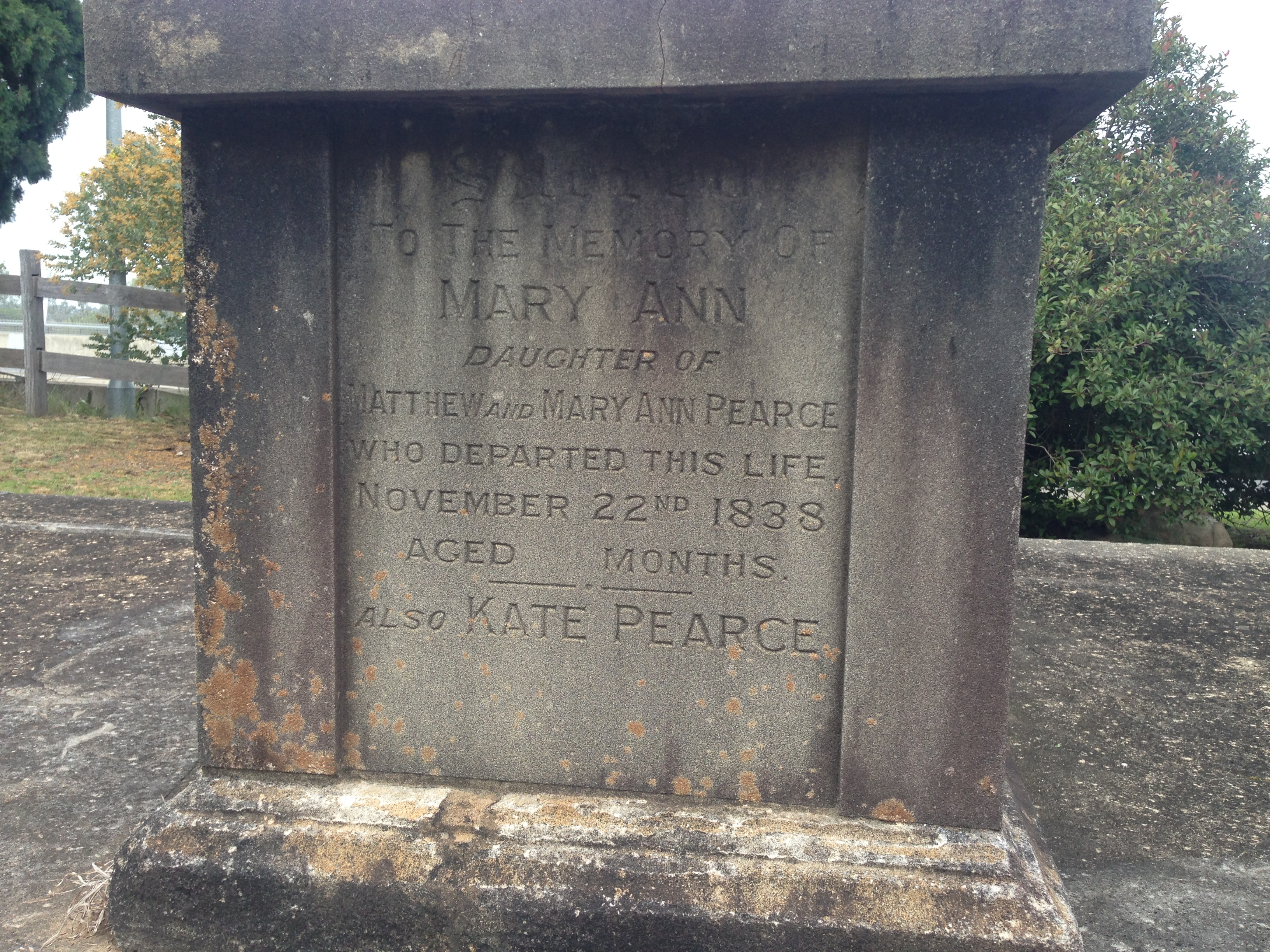 Memorial for Mary Anne Pearce in the Pearch Family cemetery. The Pearce family was pioneered the development of outer western Sydney. The site is listed on the New South Wales State Heritage Register.